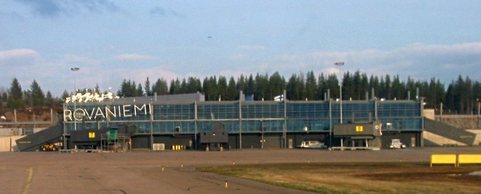 Terminal building of Rovaniemi Airport, Finland